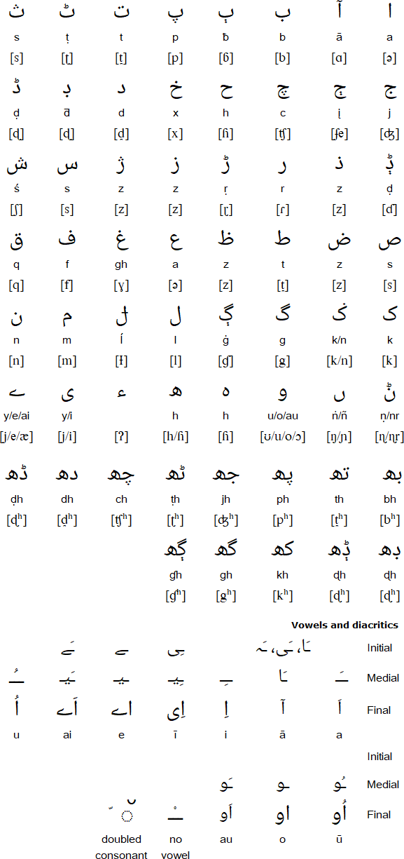 All Characters of Punjabi Alphabet.